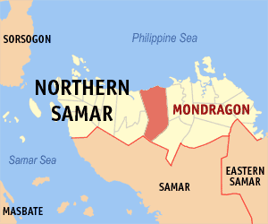 Map of Northern Samar showing the location of Mondragon